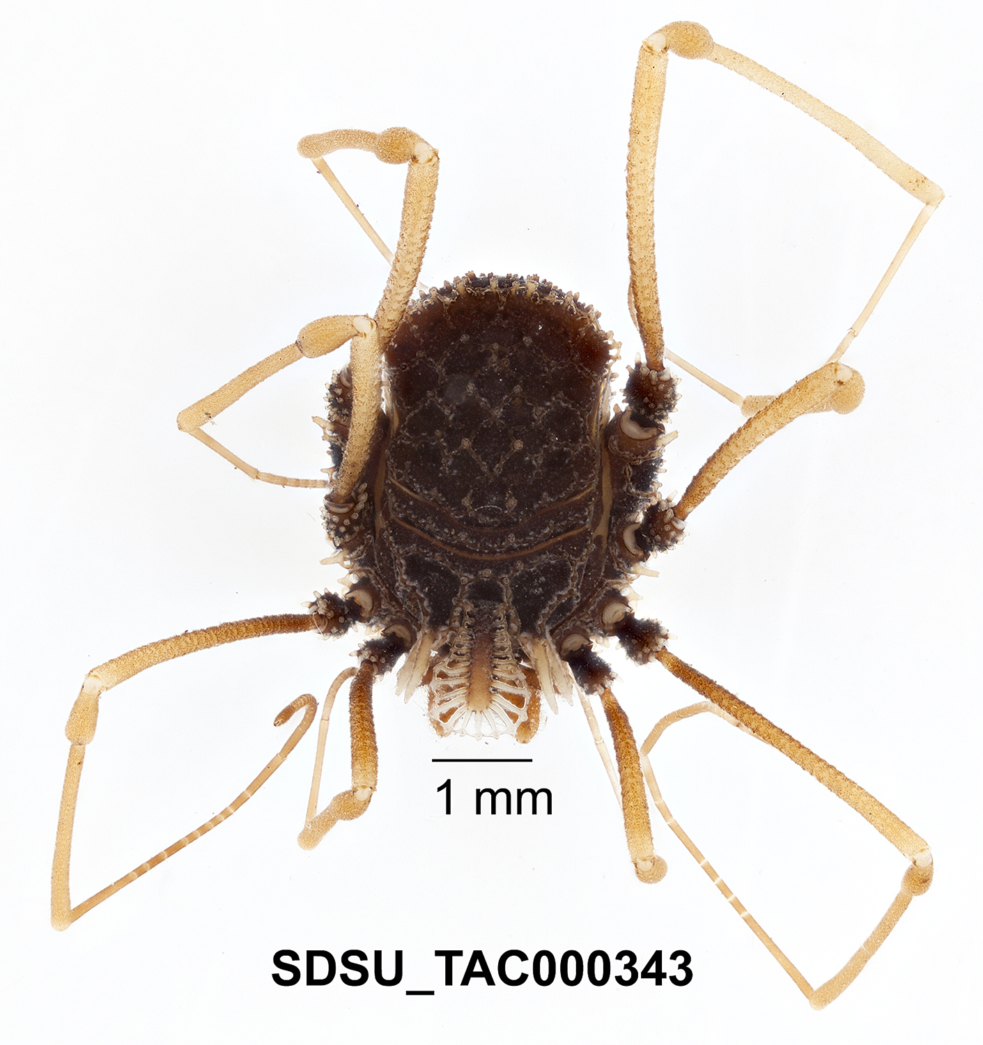 Ortholasma colossus Shear, 2010; PRESERVED_SPECIMEN; MALE; ADULT; 03/04/2013 00:00; Identified by: M Hedin